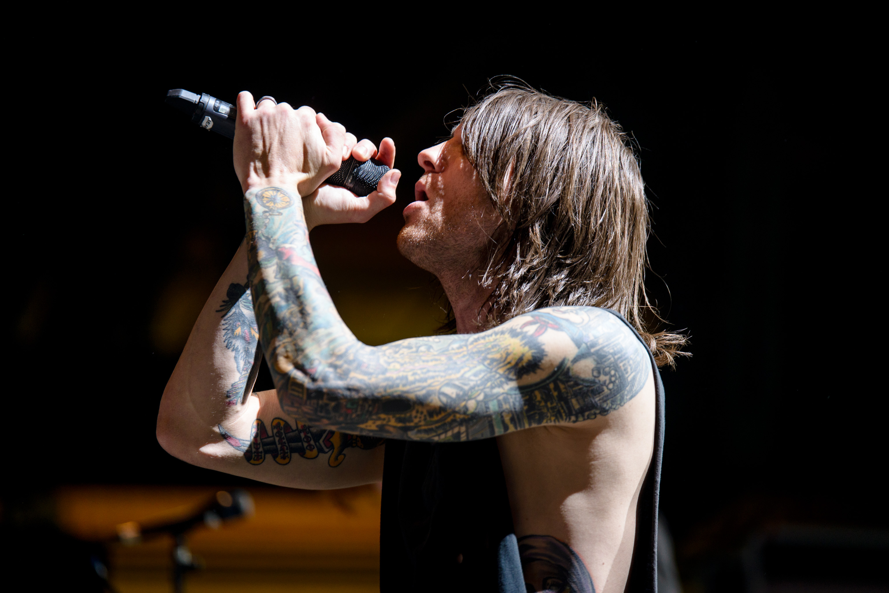 Blessthefall Live @ Impericon 2016